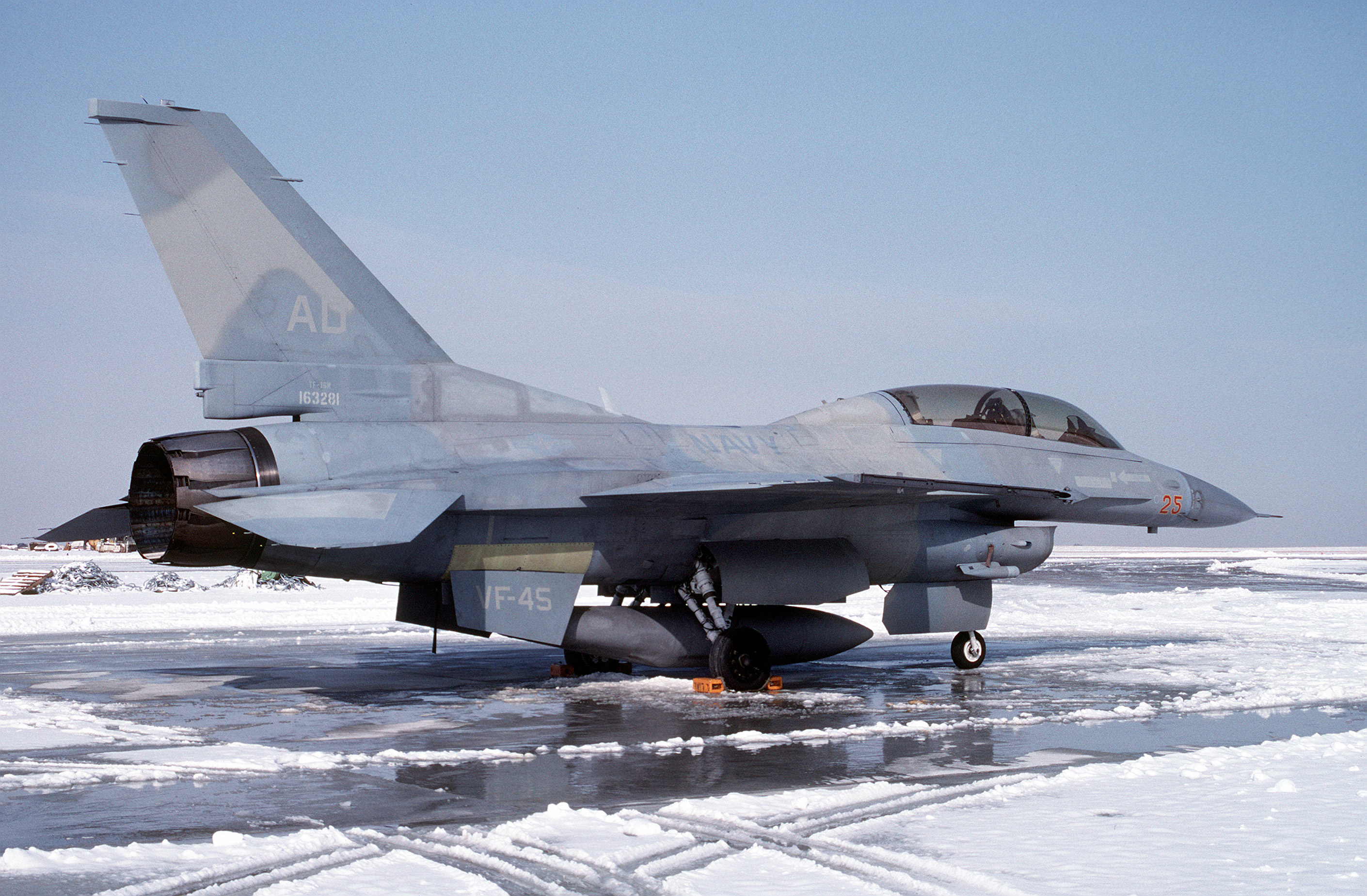 A U.S. Navy General Dynamics TF-16N Viper (BuNo 163281) of Fighter Squadron VF-45 at Naval Air Facility Andrews, Maryland (USA).